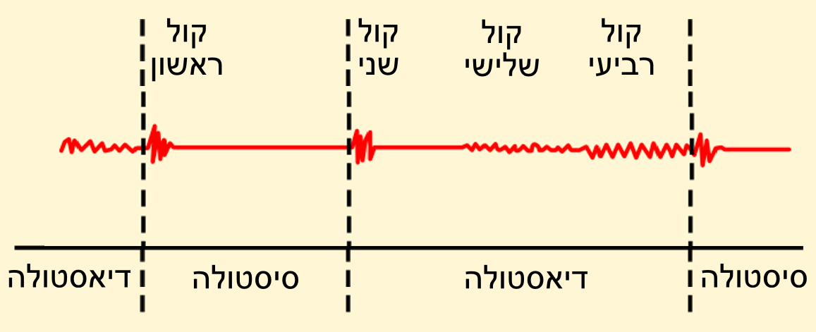 Phonocardiogram of mitral stenosis